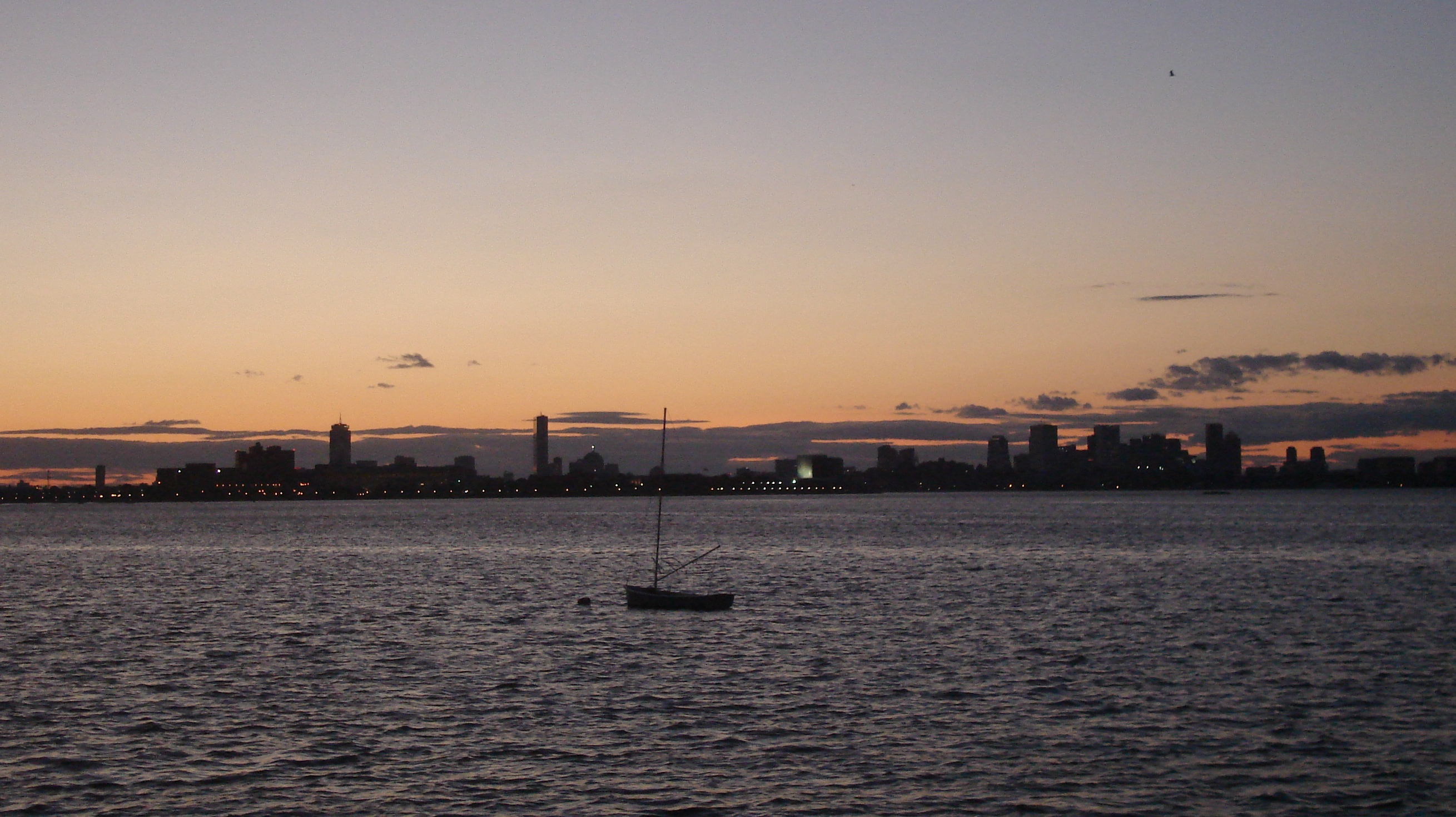 Looking across Dorchester Bay from the Squantum neighborhood of Quincy, Massachusetts as the sun sets over Boston on July 4, 2009.